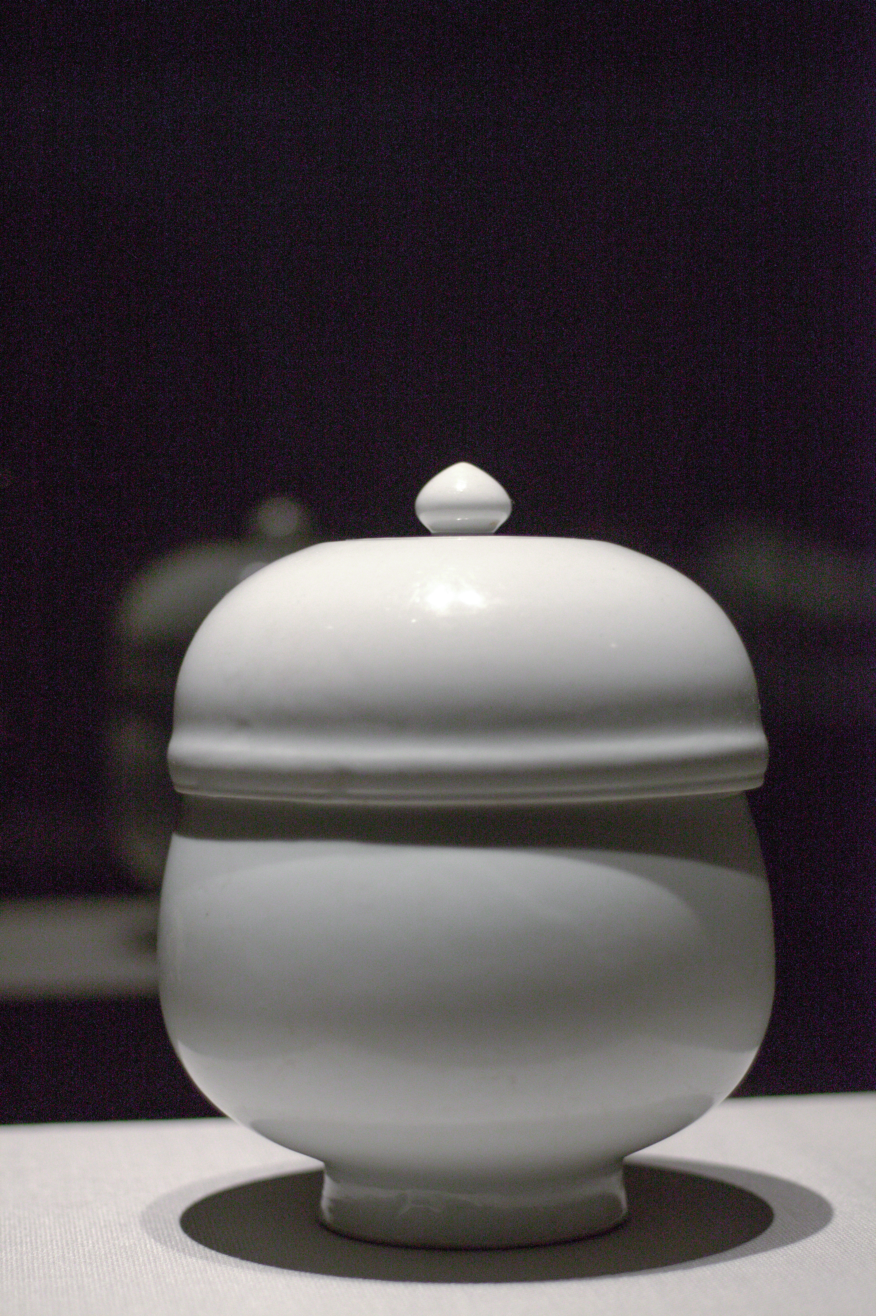 White Porcelain Lidded Bowl